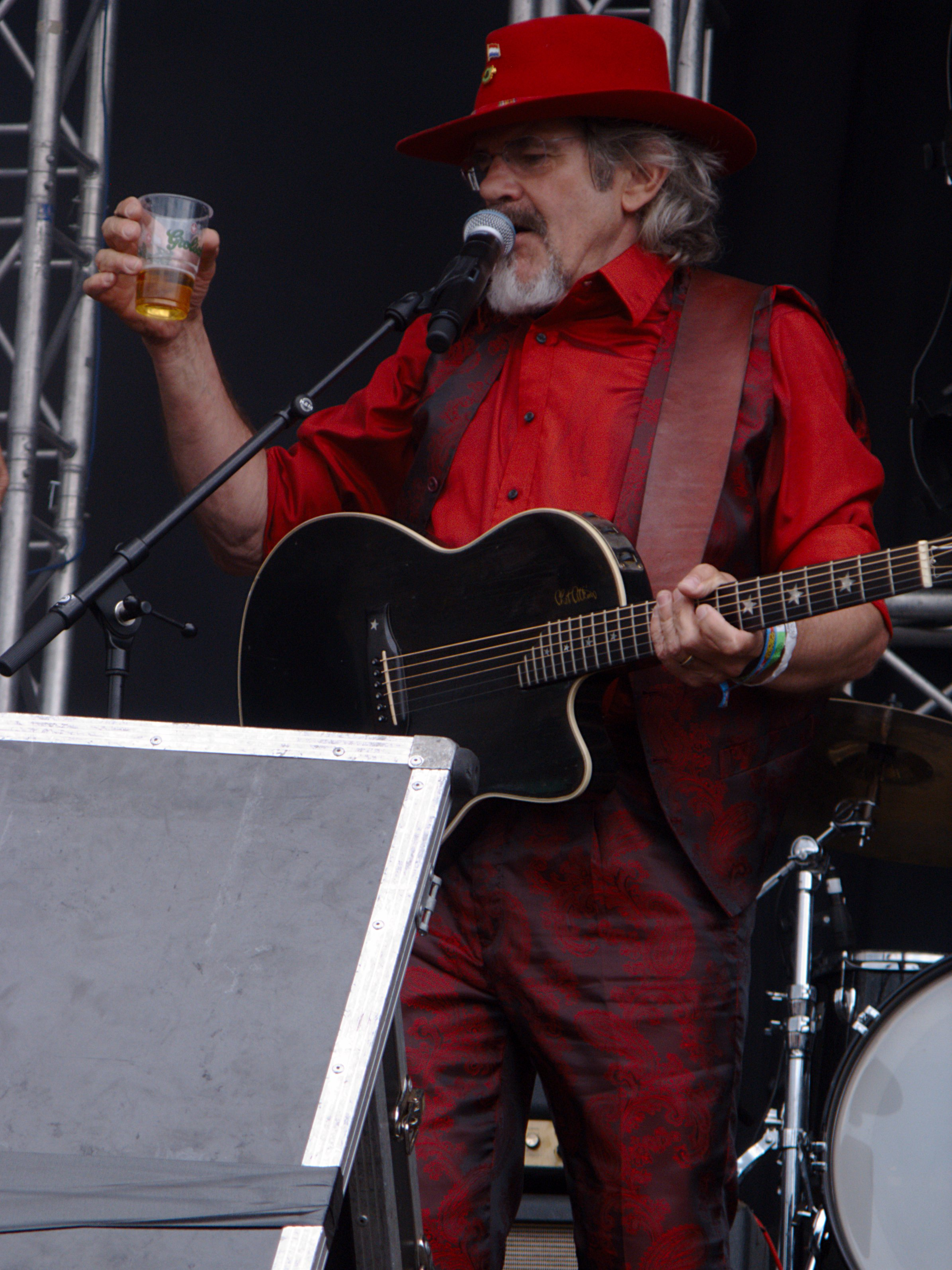 Bennie Jolink, singer of Normaal says cheers to the audience.